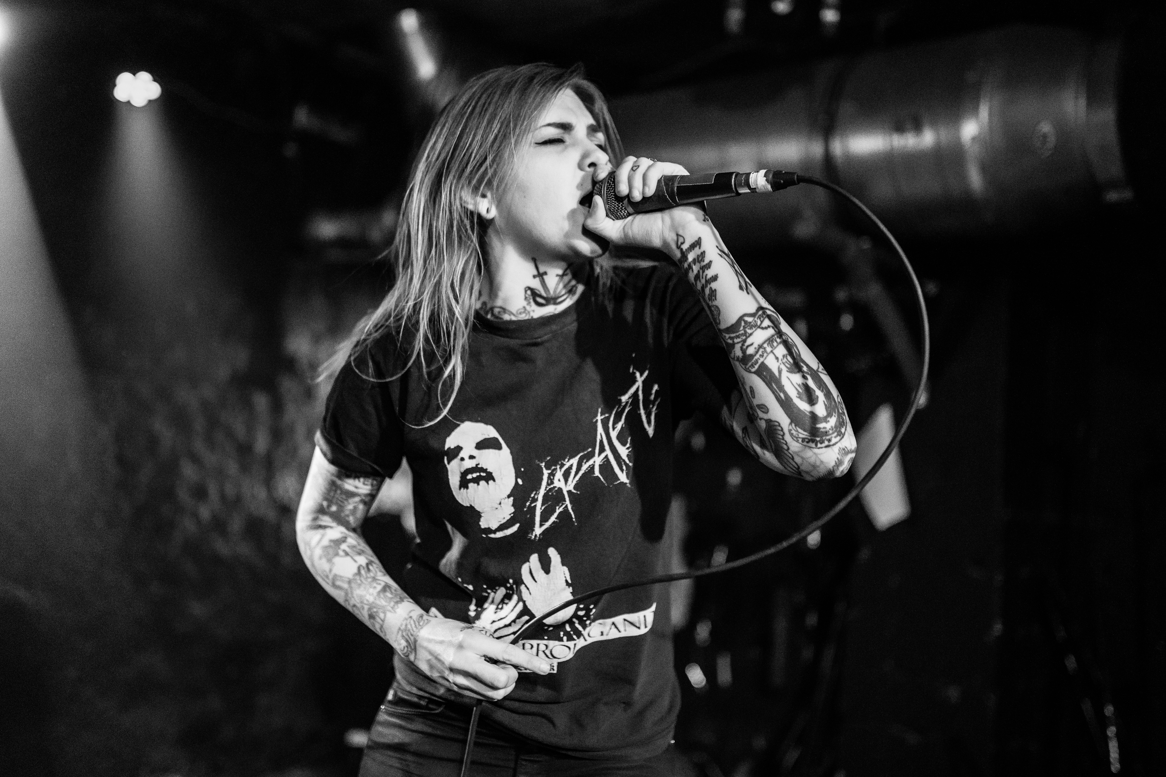 Youth Code during the concert in Warsaw, 2018.